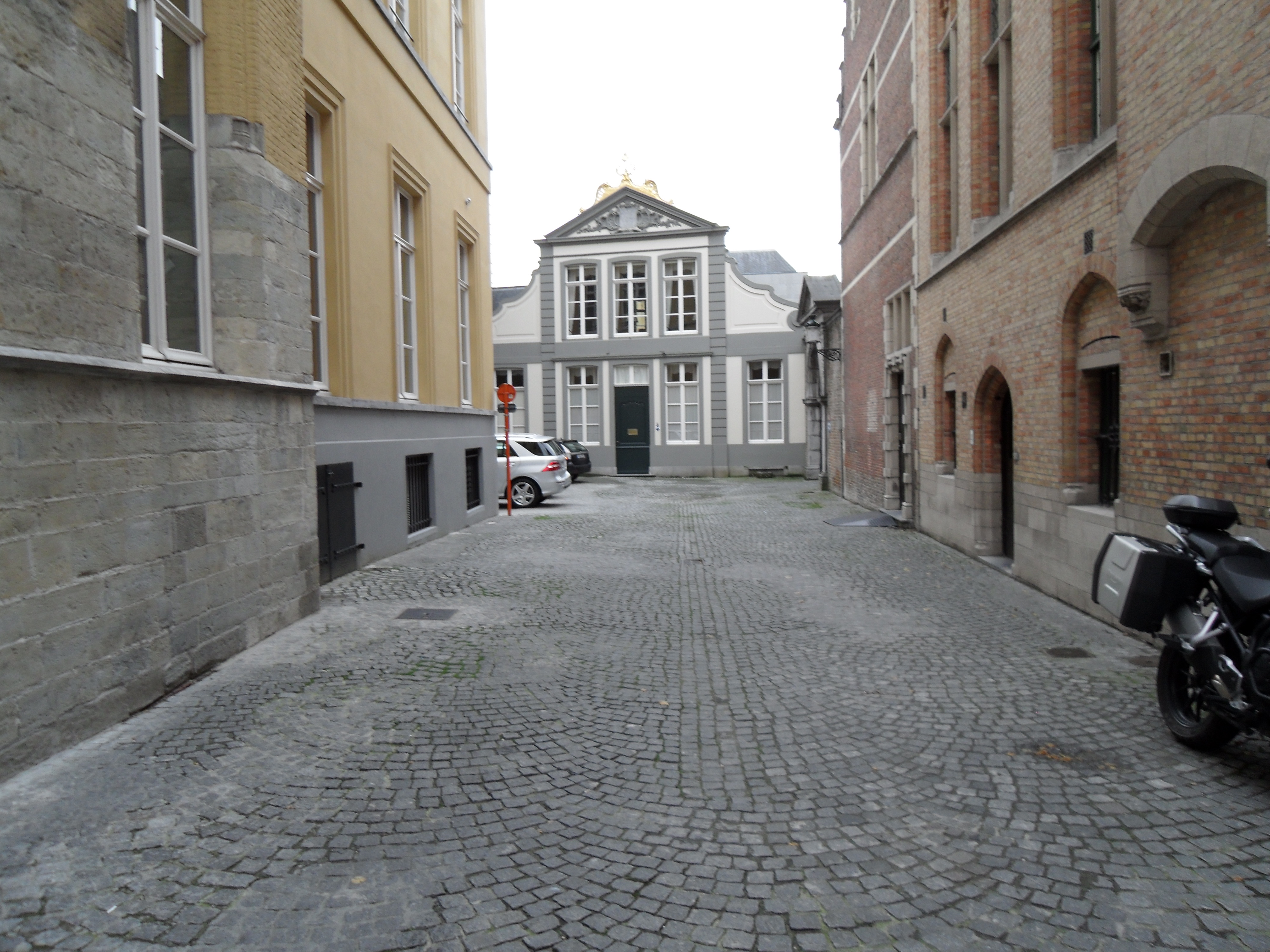 Hoogstraat, de Caese